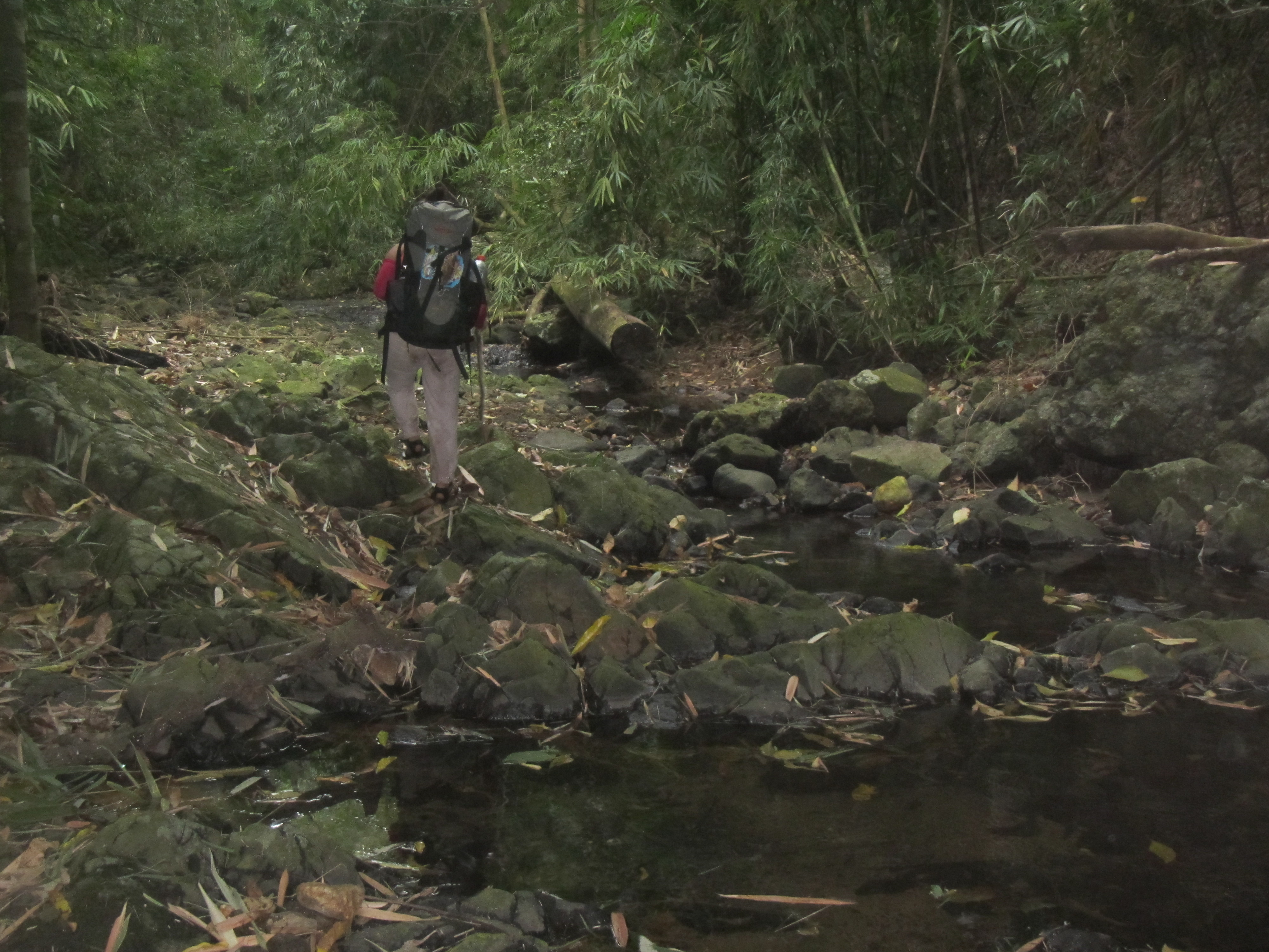 Trekking along the Anino River at the center of the Palay-Palay - Mataas na Gulod Mountain Range of Cavite and Batangas. Photo taken during the mapping expedition of Schadow1 Expeditions to connect Mount Marami to Pico De Loro.